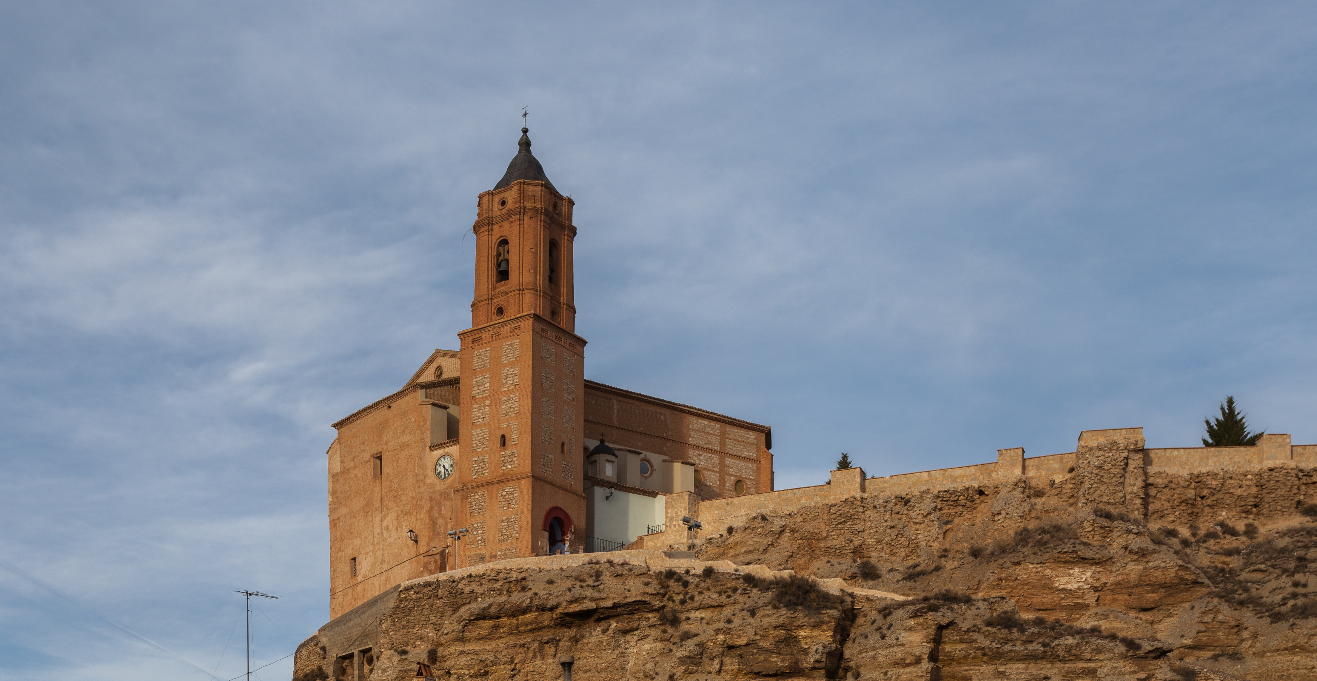 St Michael church, Paracuellos de Jiloca, Zaragoza, Spain